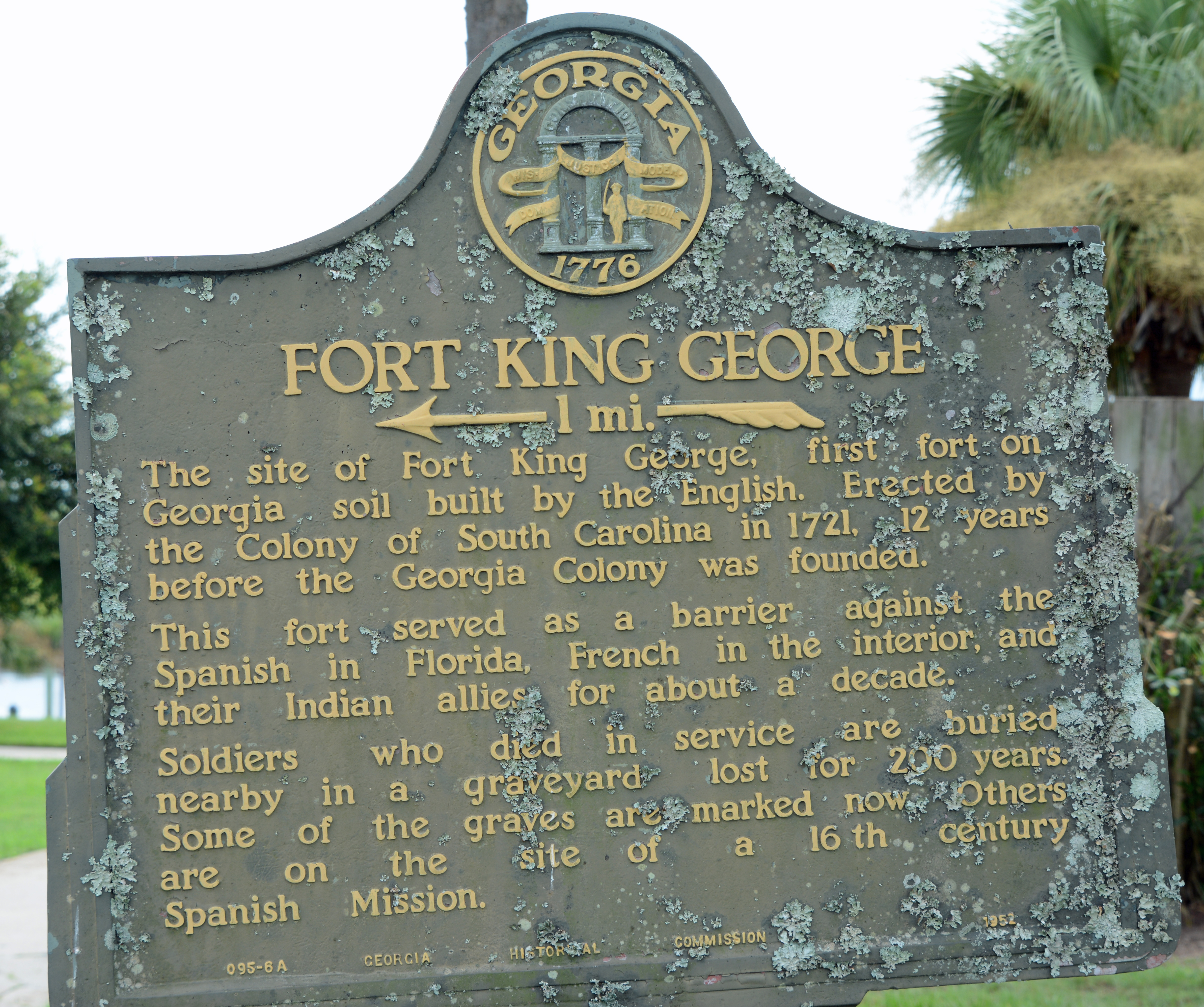 Historical marker one mile from Fort King George, in Darien, Georgia, US